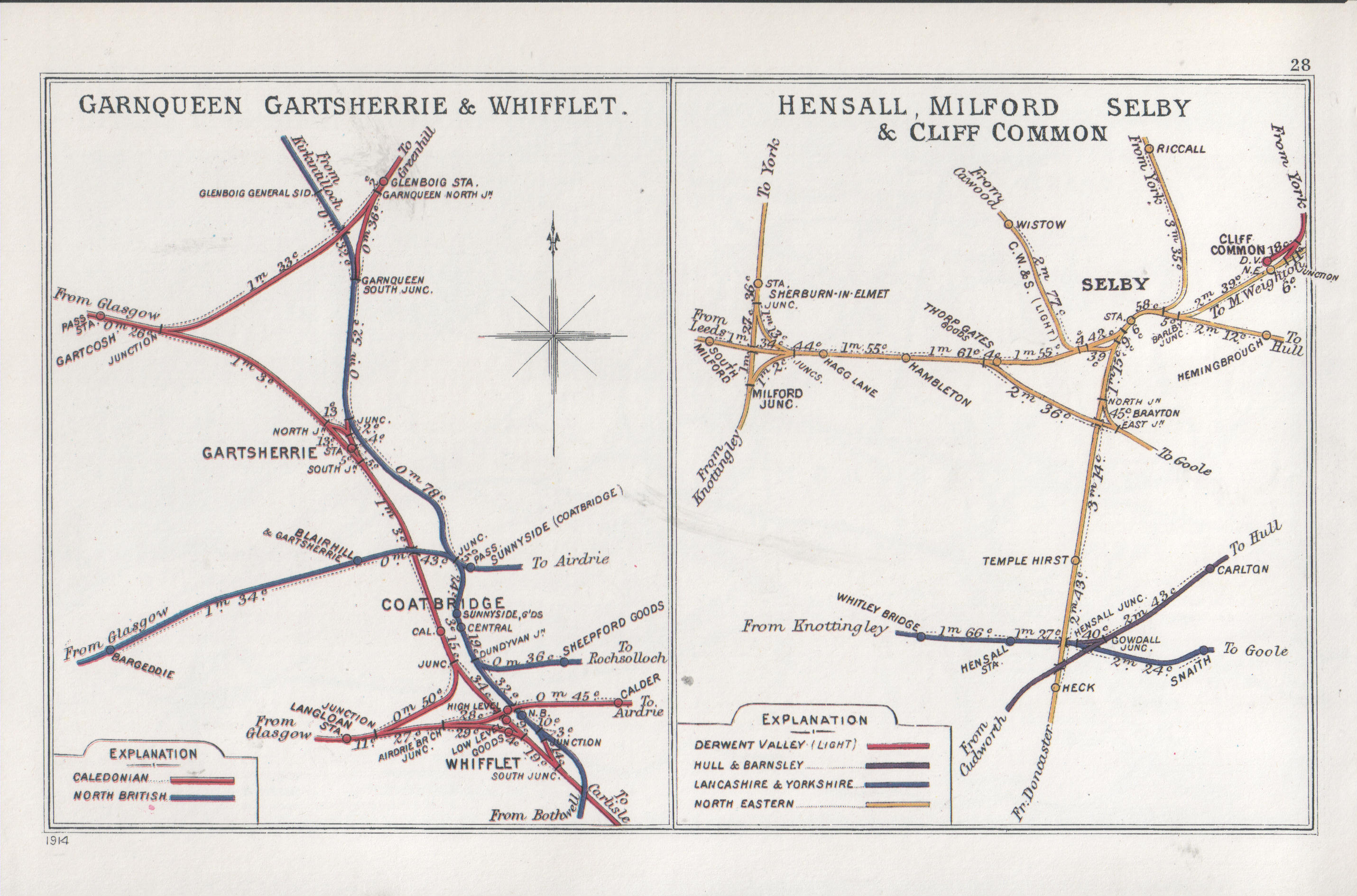 Pre Grouping railway junction around Garnqueen, Gartsherrie & Whifflet; Hensall, Milford, Selby & Cliff Common